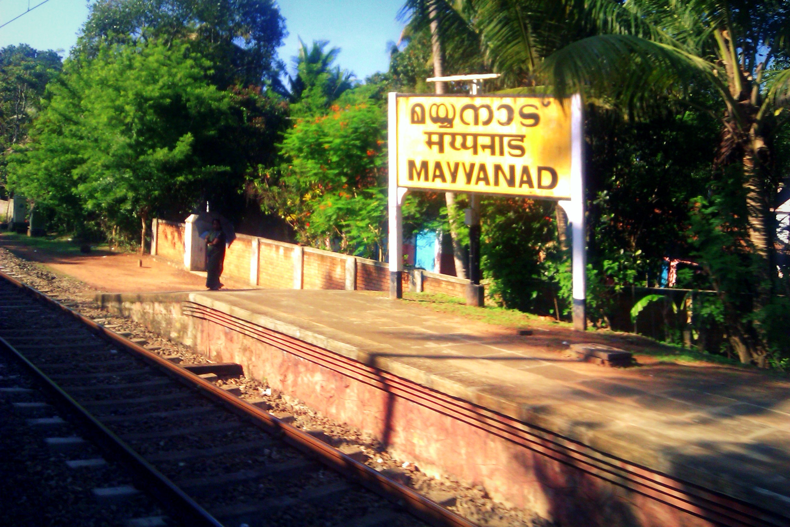 Mayyanad railway station - A railway station in between Iravipuram & Paravur railway stations.